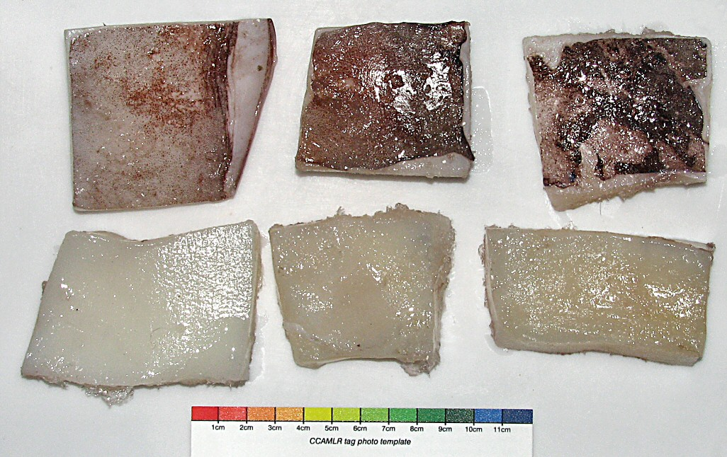 Longline bait for Antarctic toothfish (Dissostichus mawsoni) fishing: threaded Peruvian squid (Dosidicus gigas)